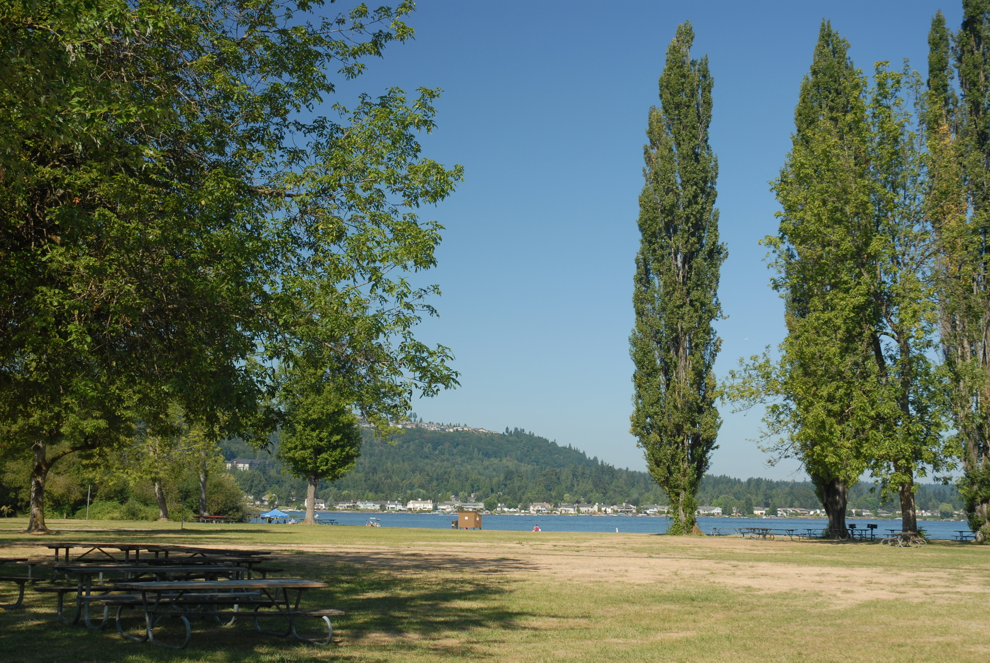 Lake Sammamish State Park, Washington, USA located at the southeast end of the lake.